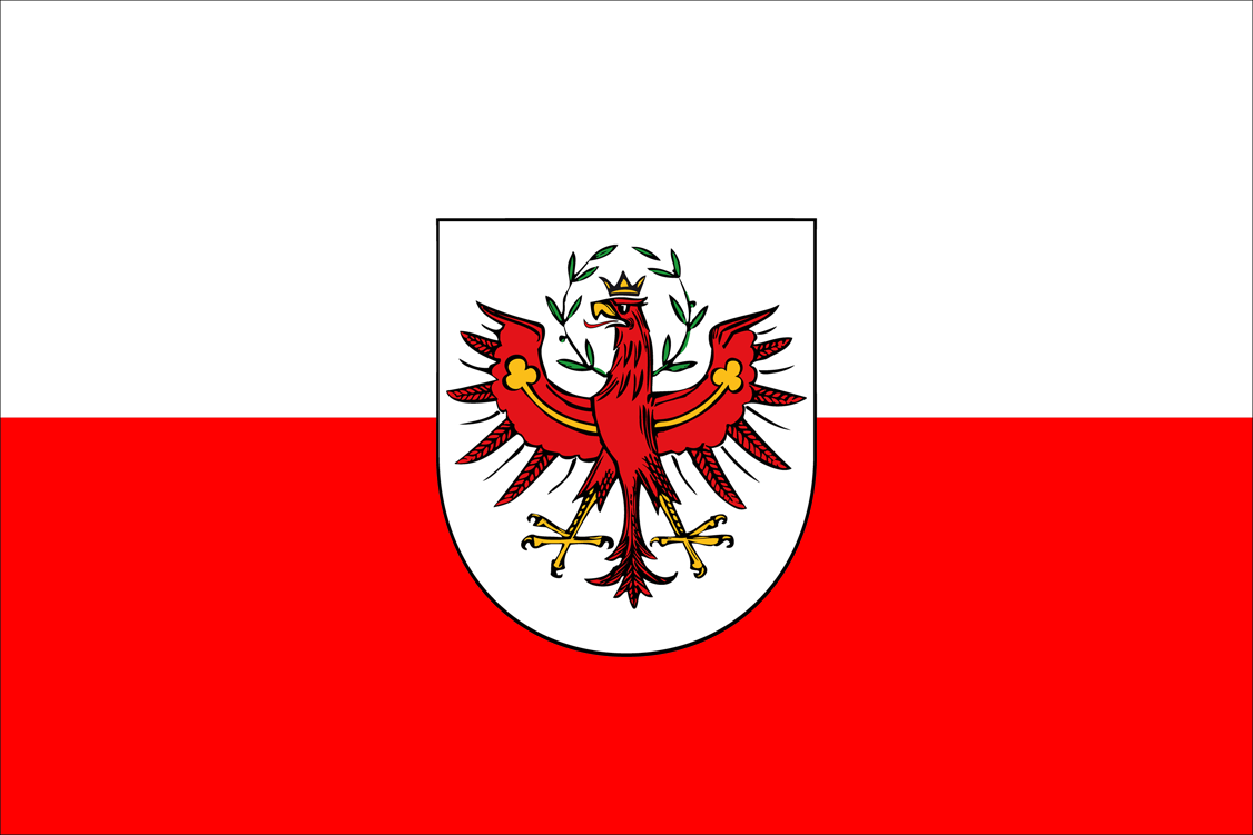 Flag of the Austrian state of Tyrol